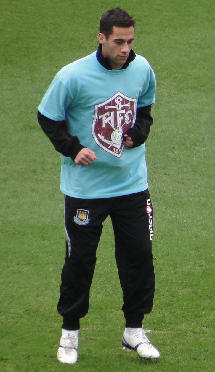 West Ham player Sam Baldock warming up at The Boleyn Ground before a match against Championship side, Millwall